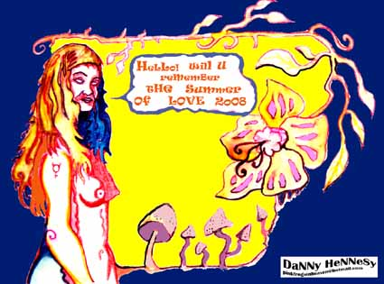 this is a pastiche made by the artist Danny Hennesy, it refers to the hippie painter Sture Johannesson from Malmö, Sweden